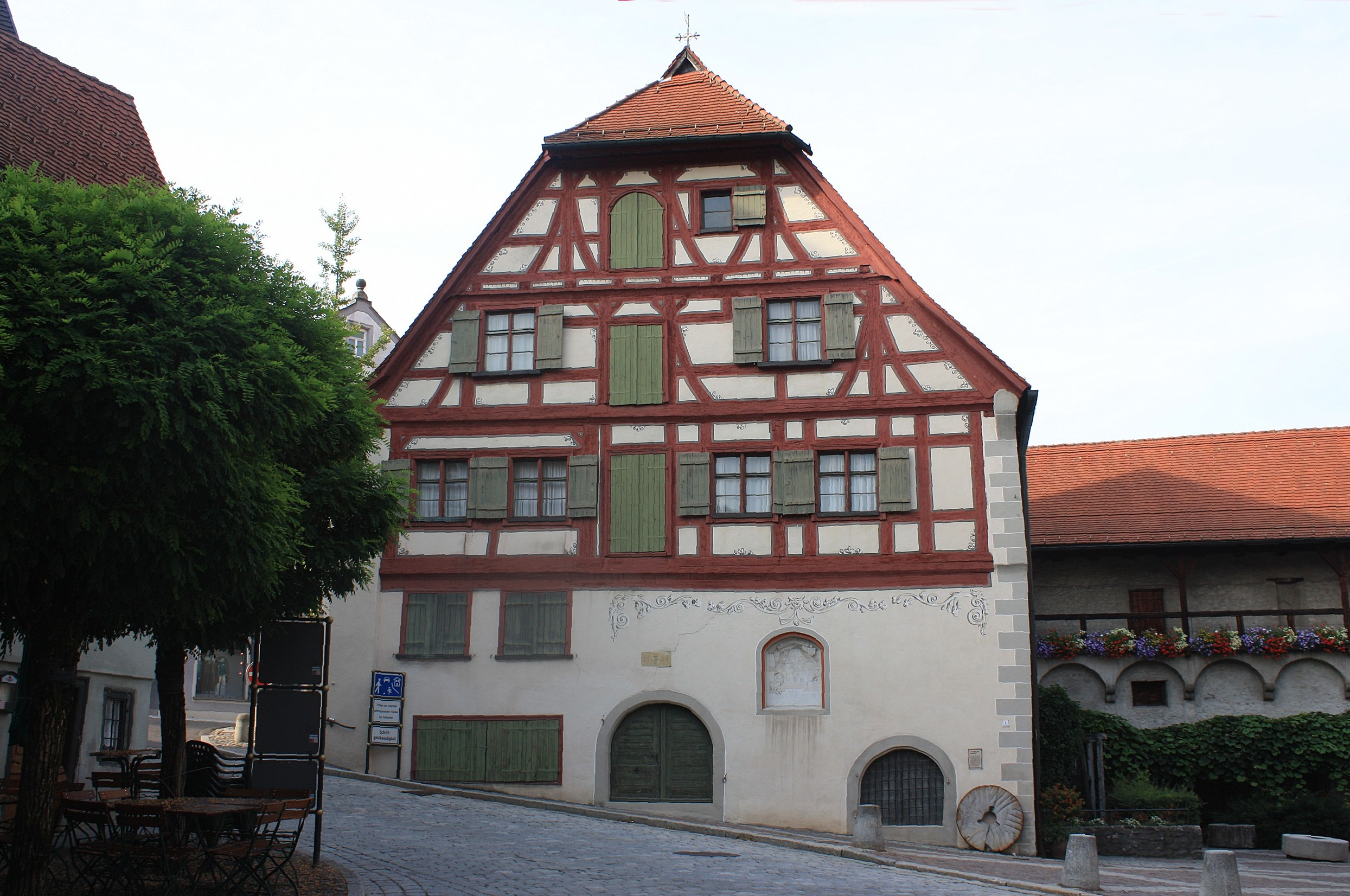 Wangen im Allgäu, the Eichendorff Museum